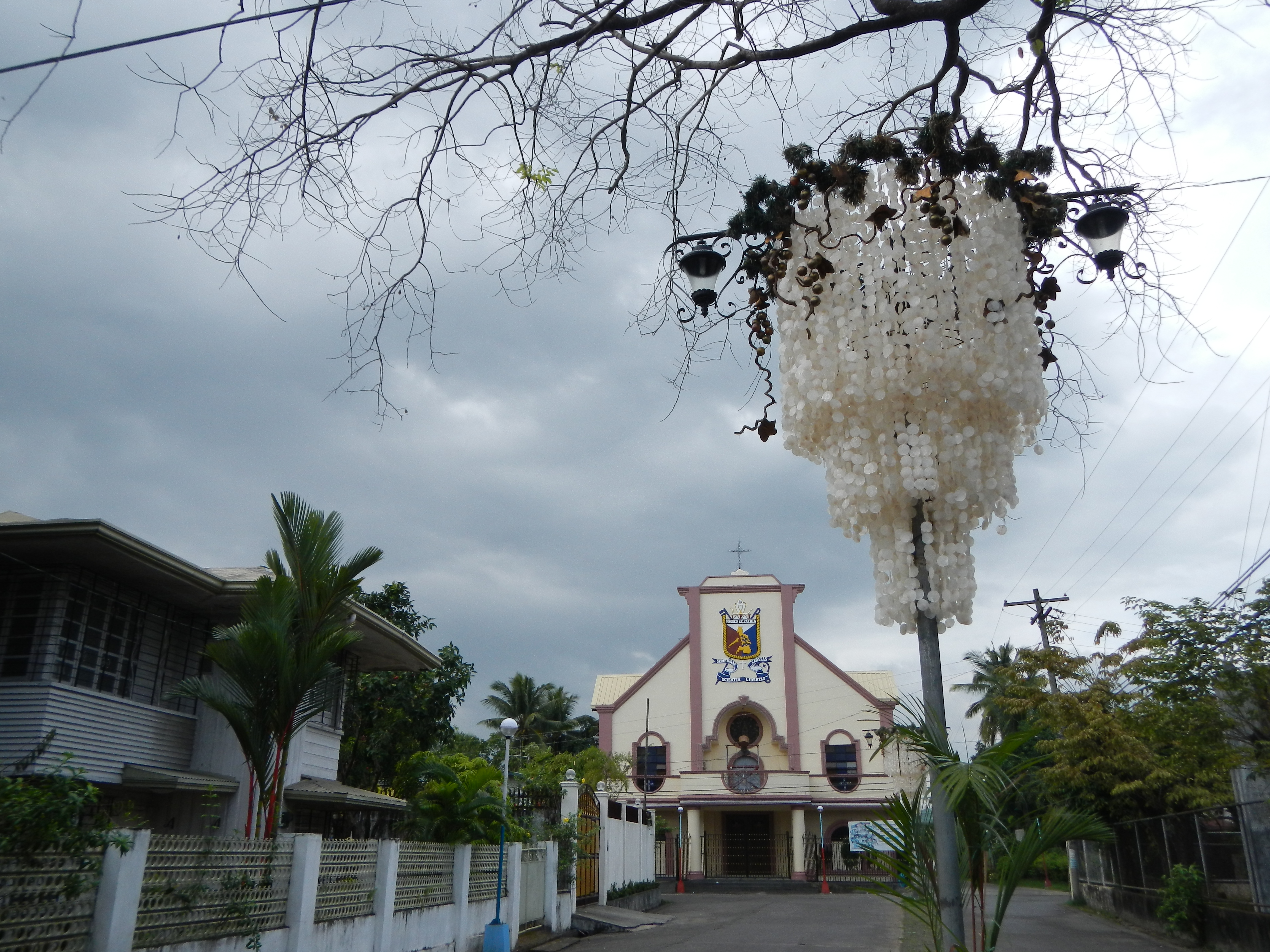 Samal, Bataan[1][2]Eastern side of Bataan, Samal is bounded by the municipalities of Orani, Abucay, Mt. Natib and Manila Bay. Its total population is 45,677 with main products: palay, corn, vegetable, fruits, rootcrops, coffee and cutflowers, livestock, poultry and aquatic resources such as shellfish, crabs, prawns, shrimps and different species of fish. Coordinates: 14°46'3"N 120°29'8"E[3][4][5]